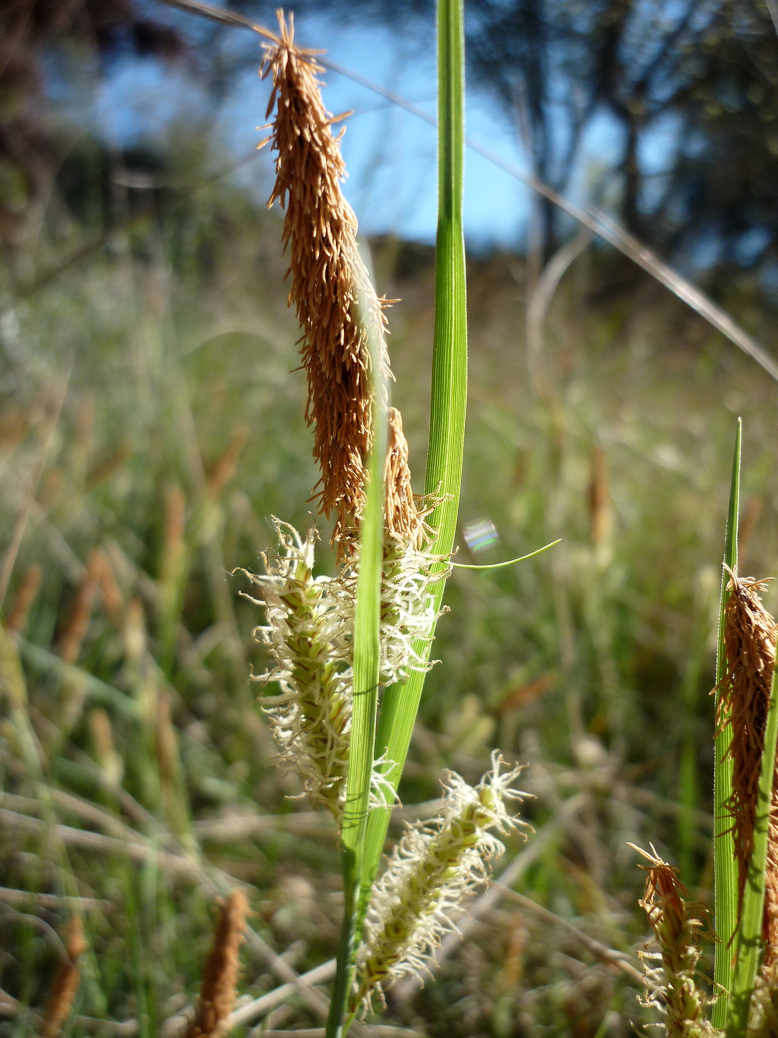 Carex flacca . In Pinós (Solsonès - Catalunya). To 710 m. altitude